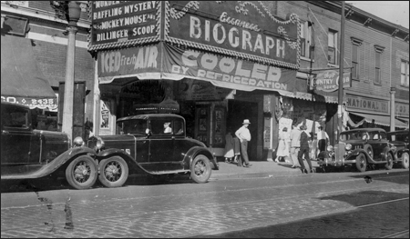 Biograph theatre